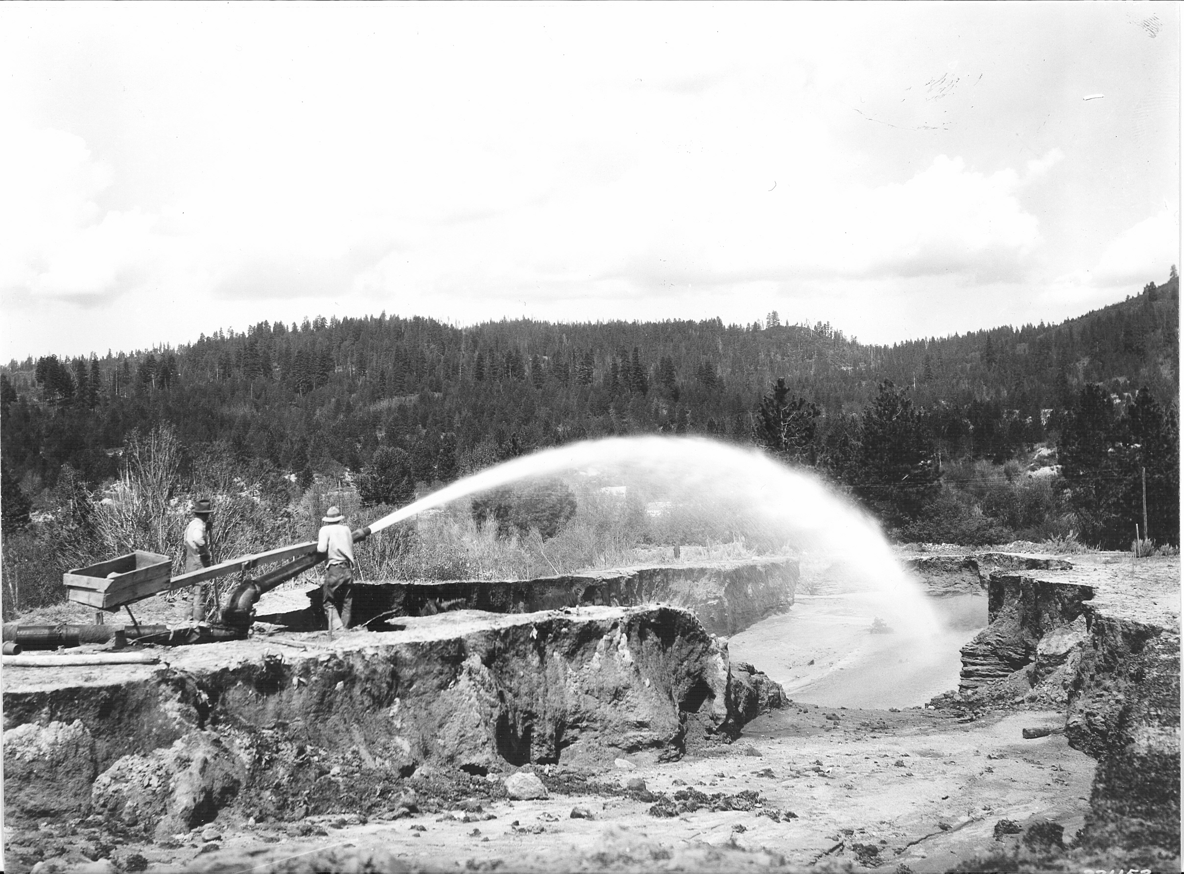 KD Swan. 1929. Boise National Forest. Mining - Placer mining in the Boise Basin.